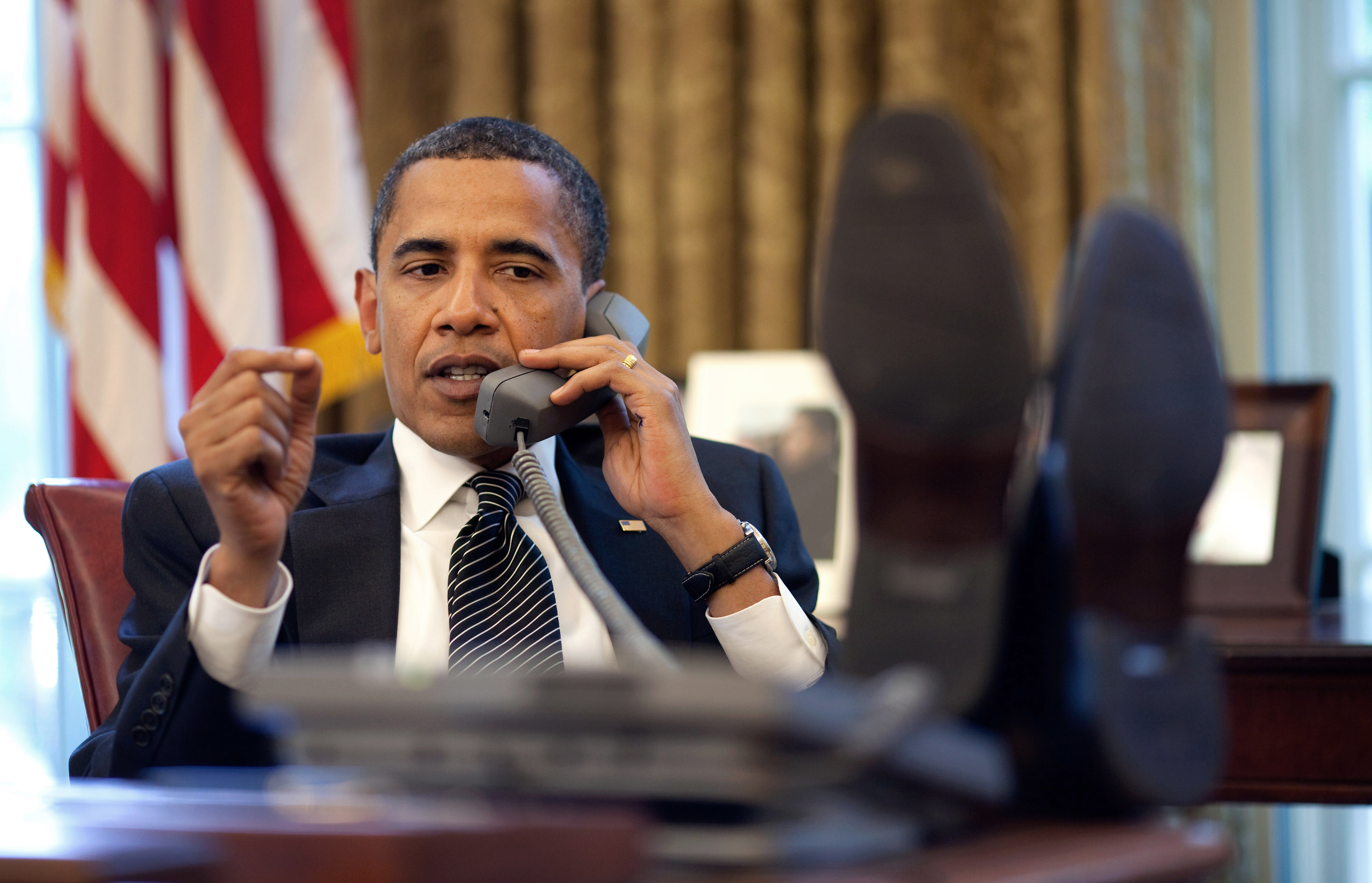 President Barack Obama talks with Israeli Prime Minister Benjamin Netanyahu during a phone call from the Oval Office, Monday, June 8, 2009. Official White House Photo by Pete Souza.